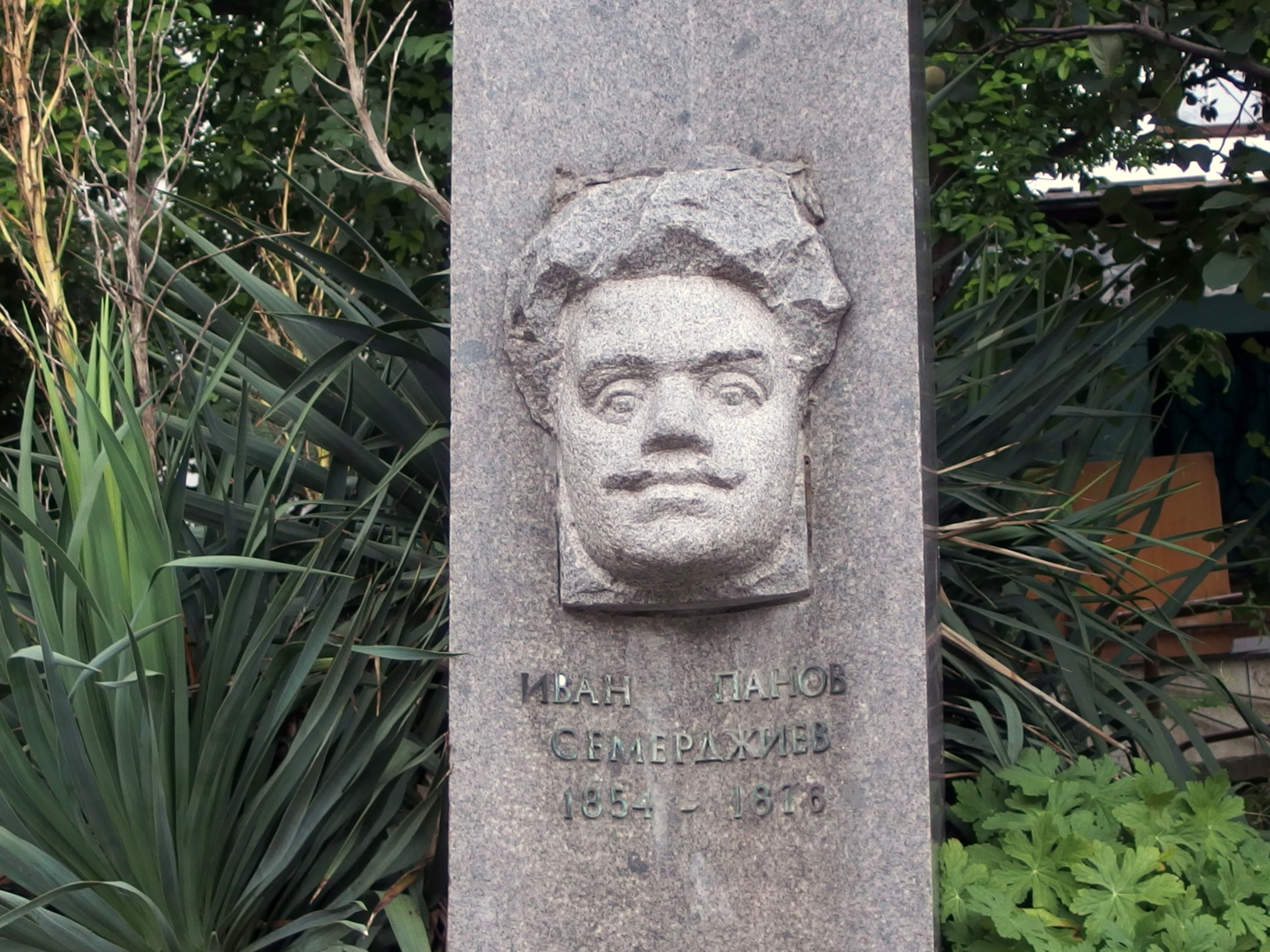 2014-06-21 in Veliko Tarnovo.